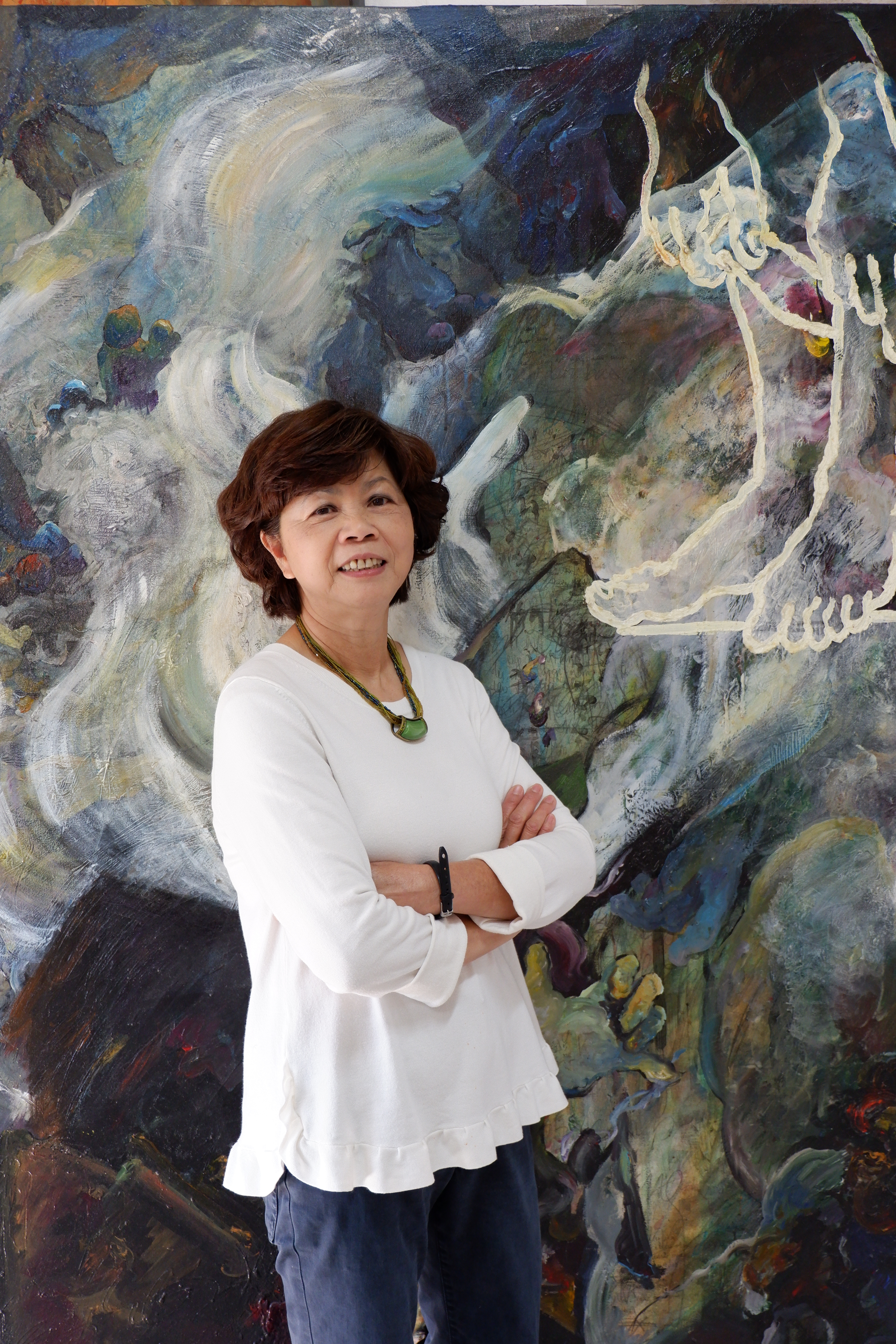 Ann Phong stands proudly in front of one of her larger paintings, entitled "Jump." She stores the painting upstairs in her home in Southern California.